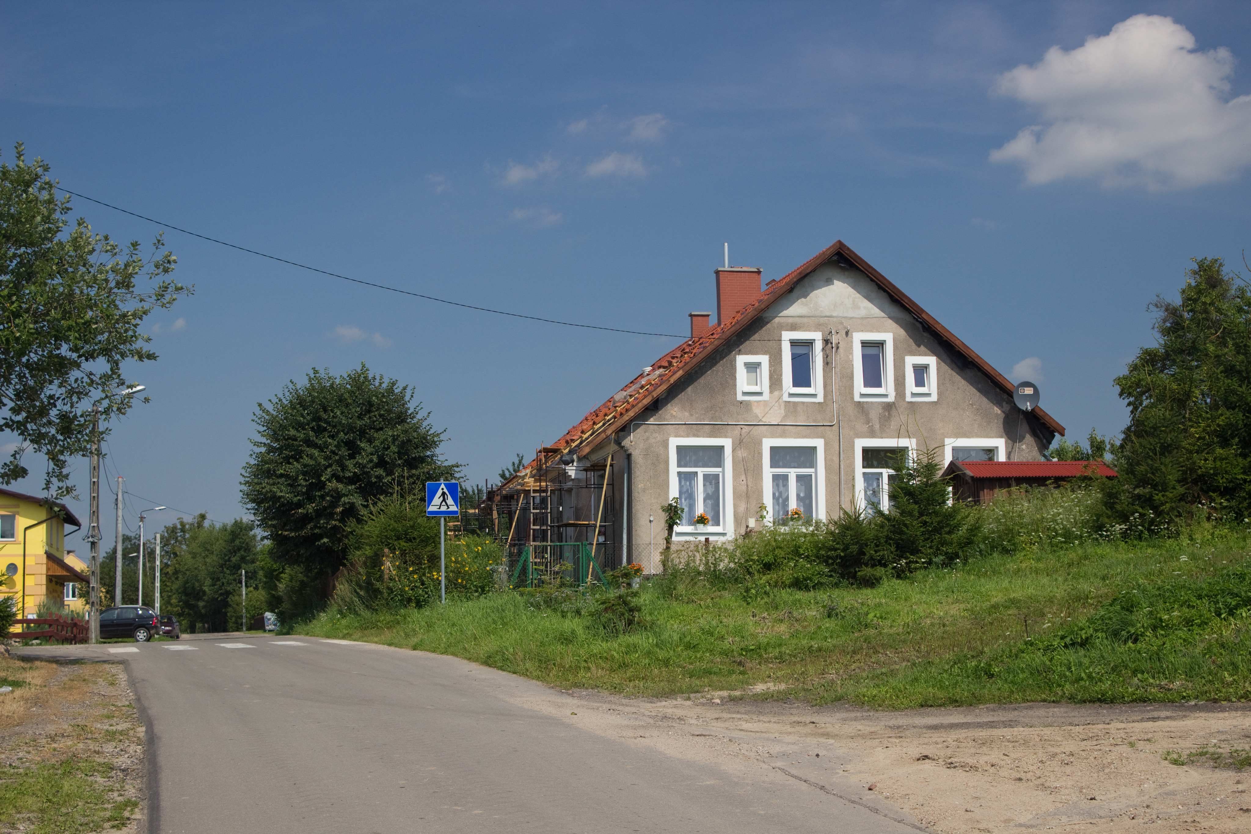 Blanki, gmina Lidzbark Warmiński, powiat lidzbarski, Warmian-Masurian Voivodeship